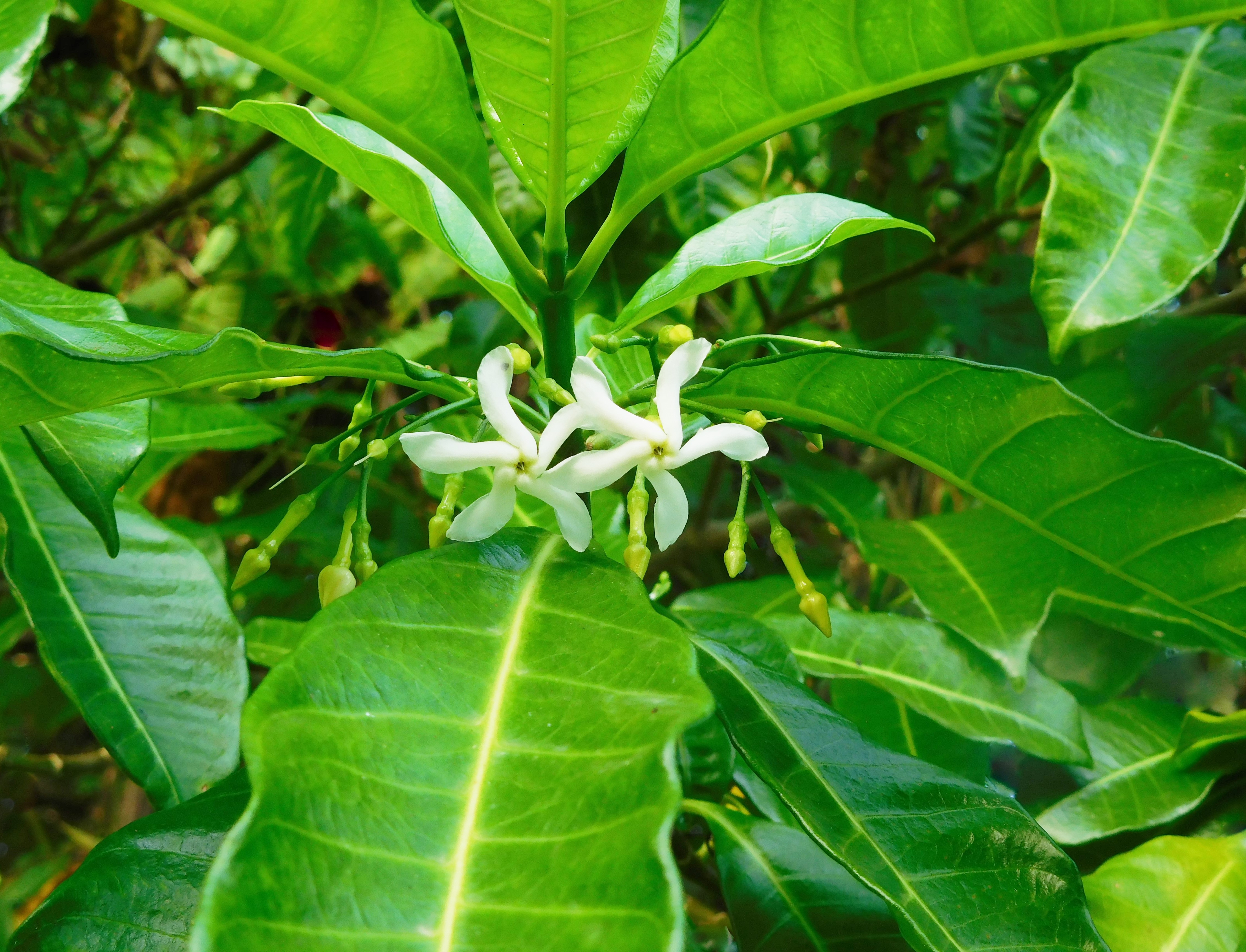 Milkwood